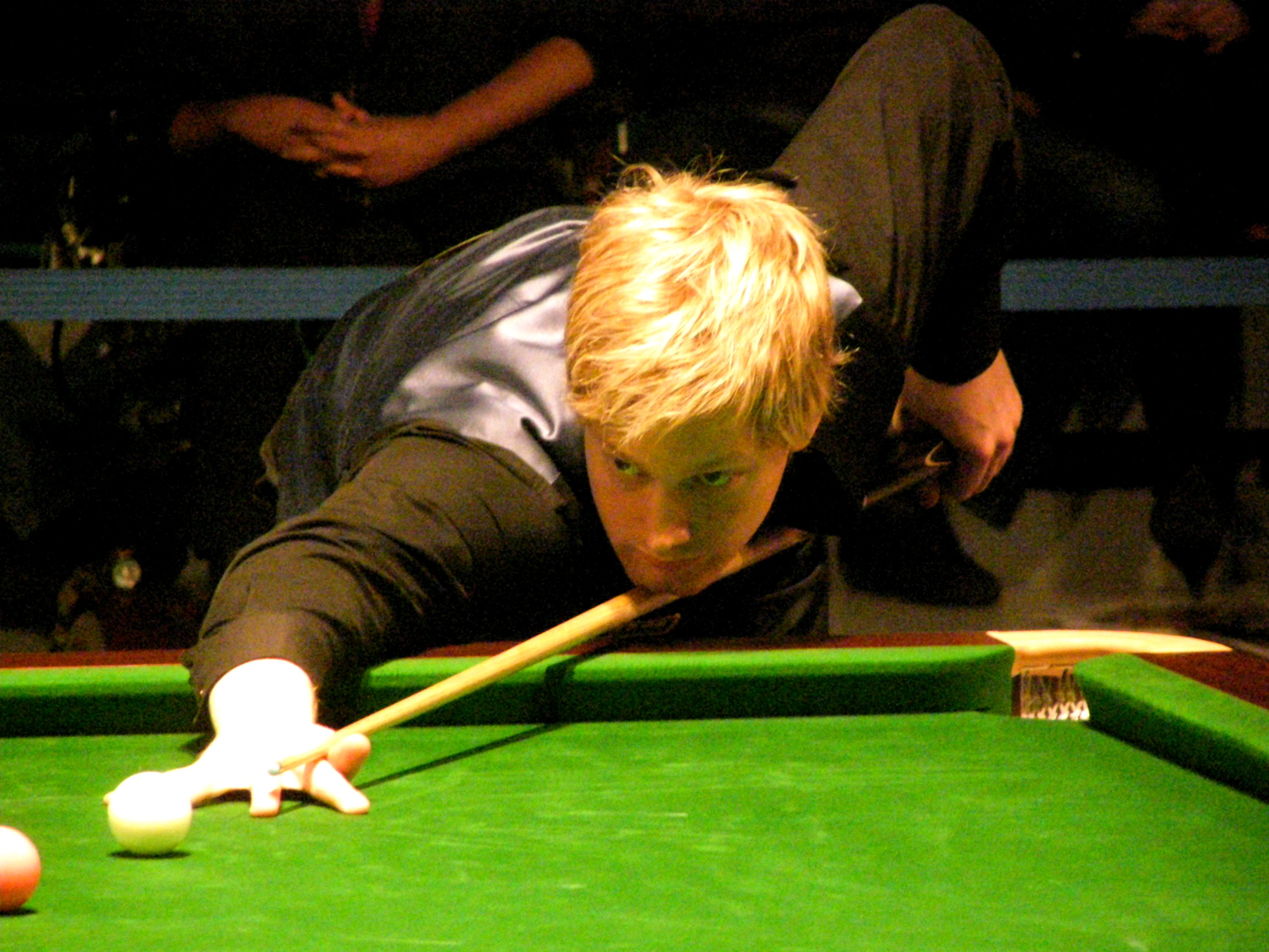 Neil Robertson, Australian Snooker Professional